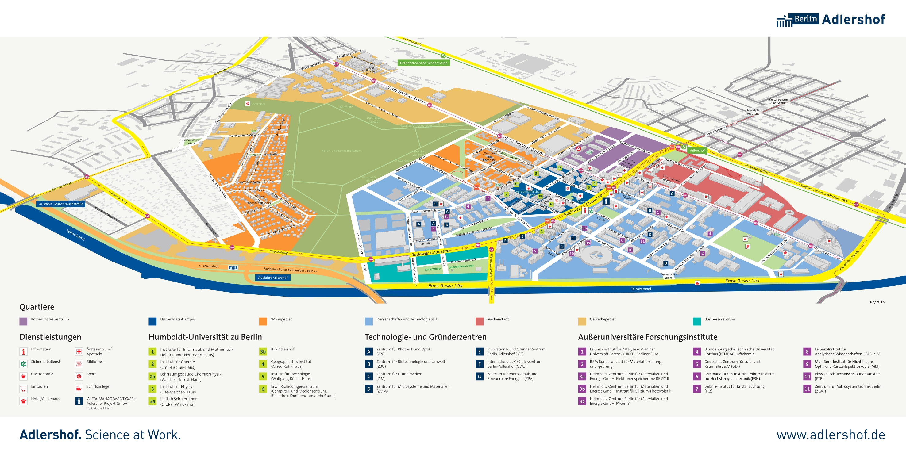 Map of Science City "WISTA", Berlin - Adlershof